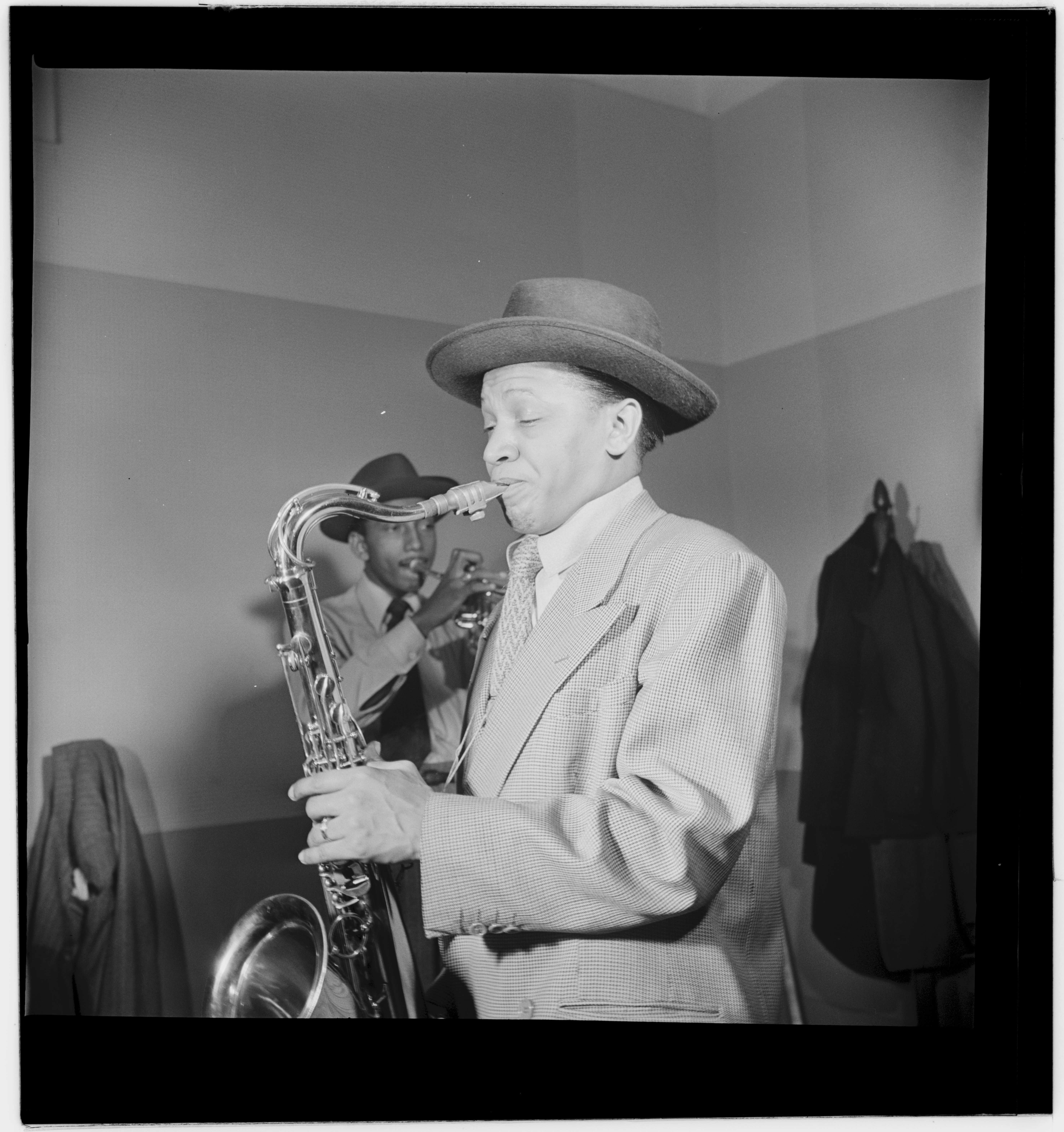 Illinois Jacquet, New York, N.Y., ca. May 1947 (Photograph by William P. Gottlieb)